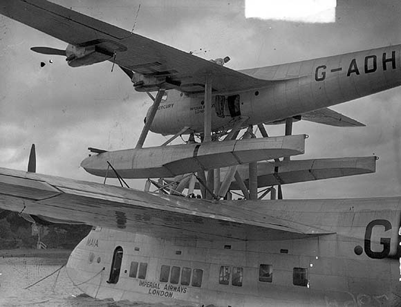 Imperial Airways seaplanes at Foynes, Limerick. On the bottom is Maia, with Mercury above. These planes were made by Short Brothers, and were aimed at solving the problem of getting heavily loaded aircraft into the air with a reasonably short take-off run. On 20 July 1938, the Irish Independent reported: "The Mercury will carry across the Atlantic copies of tomorrow's "Irish Independent", which, if the flight proceeds as scheduled, will be on sale in New York at mid-day on Thursday. She will also carry half a ton of newspapers and pictures of the King's visit to Paris. ... The Mercury will be catapulated [sic] from the back of the mother plane, Maia, and it is hoped to make the crossing in about 12 hours [to Montreal] and to be in New York in under 20 hours." Date: 20 July 1938 NLI Ref.: INDH962